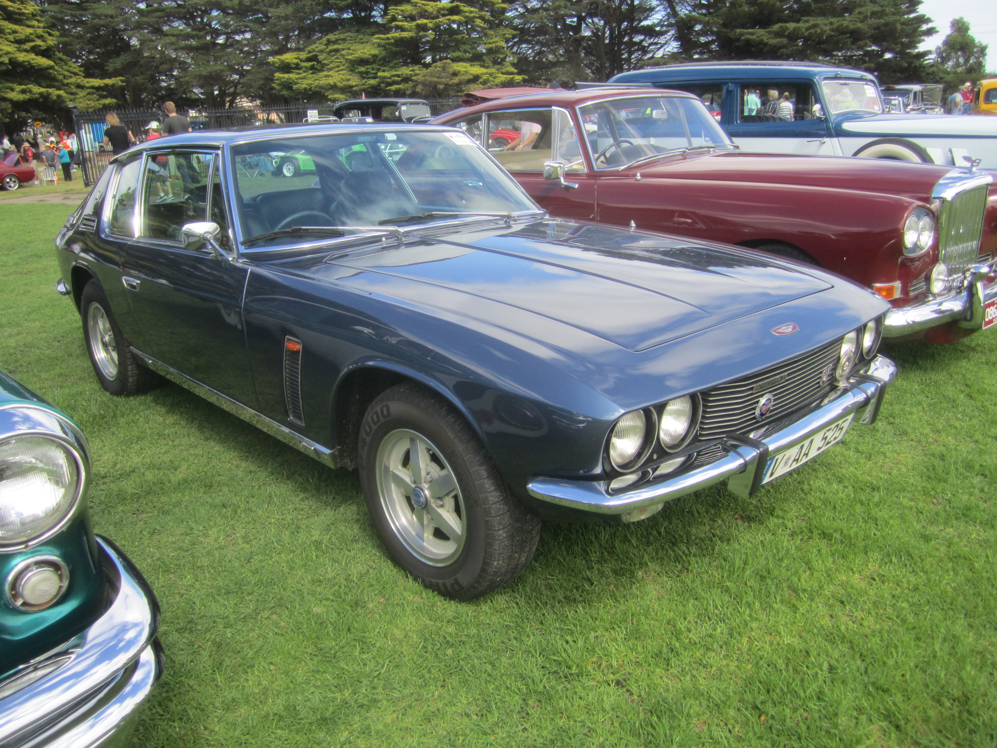 The Interceptor was built from 1966-1976, unique with its wrap around rear window and Mopar V8s. 1966 Mk1; initially 383 V8 then in 1971 440 V8. 1969 Mk 2; got disc brakes, indicators now below bar. 1971 Mk 3; alloy wheels and new seats. Optiional SP; got 390hp 6 pack 440 (232 made) and also FF; got AWD, ABS and traction control, the car was 4 inches longer and got 2 vents in front of door instead of 1 (320 made)